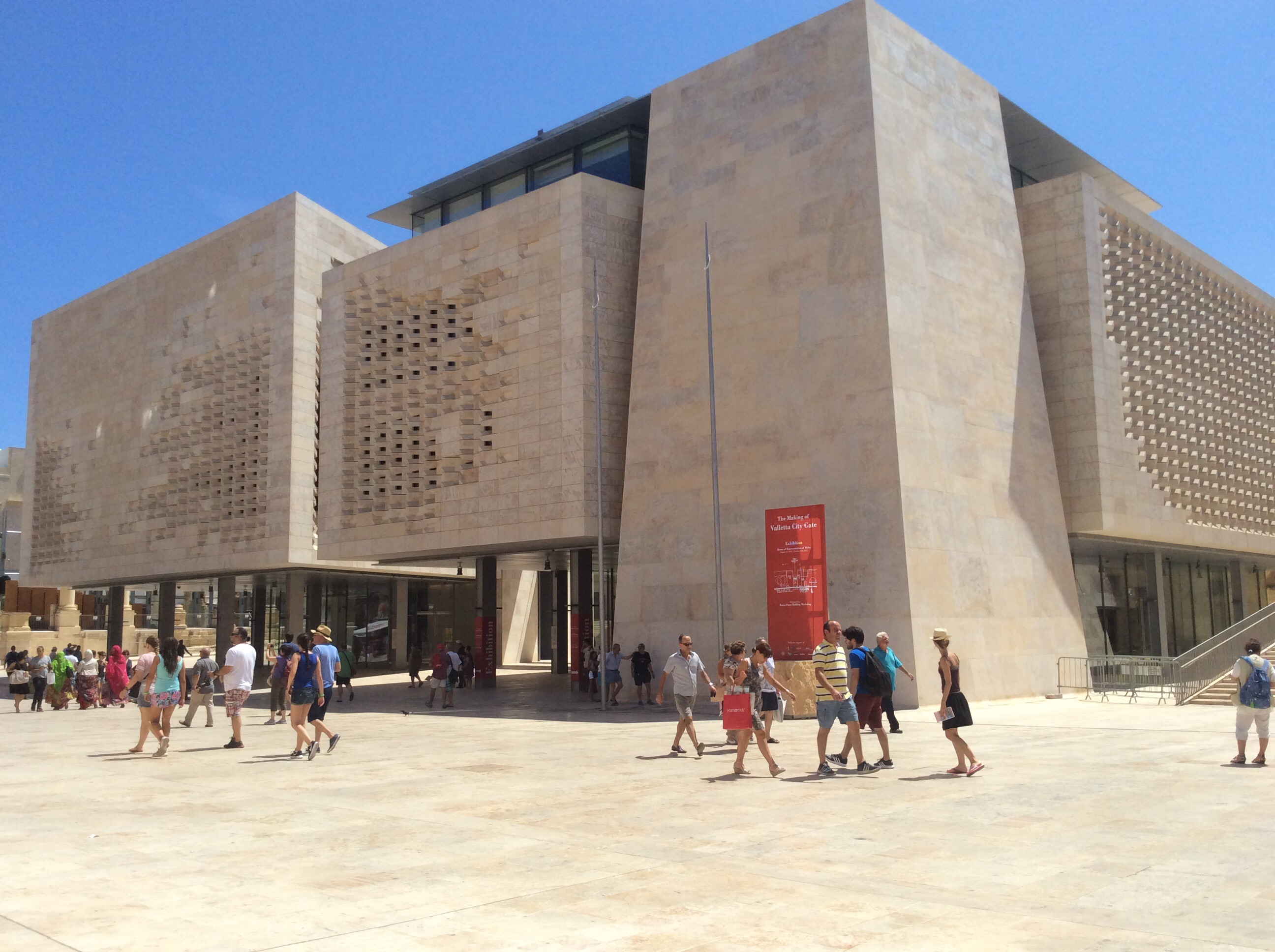 Parlimentmalta